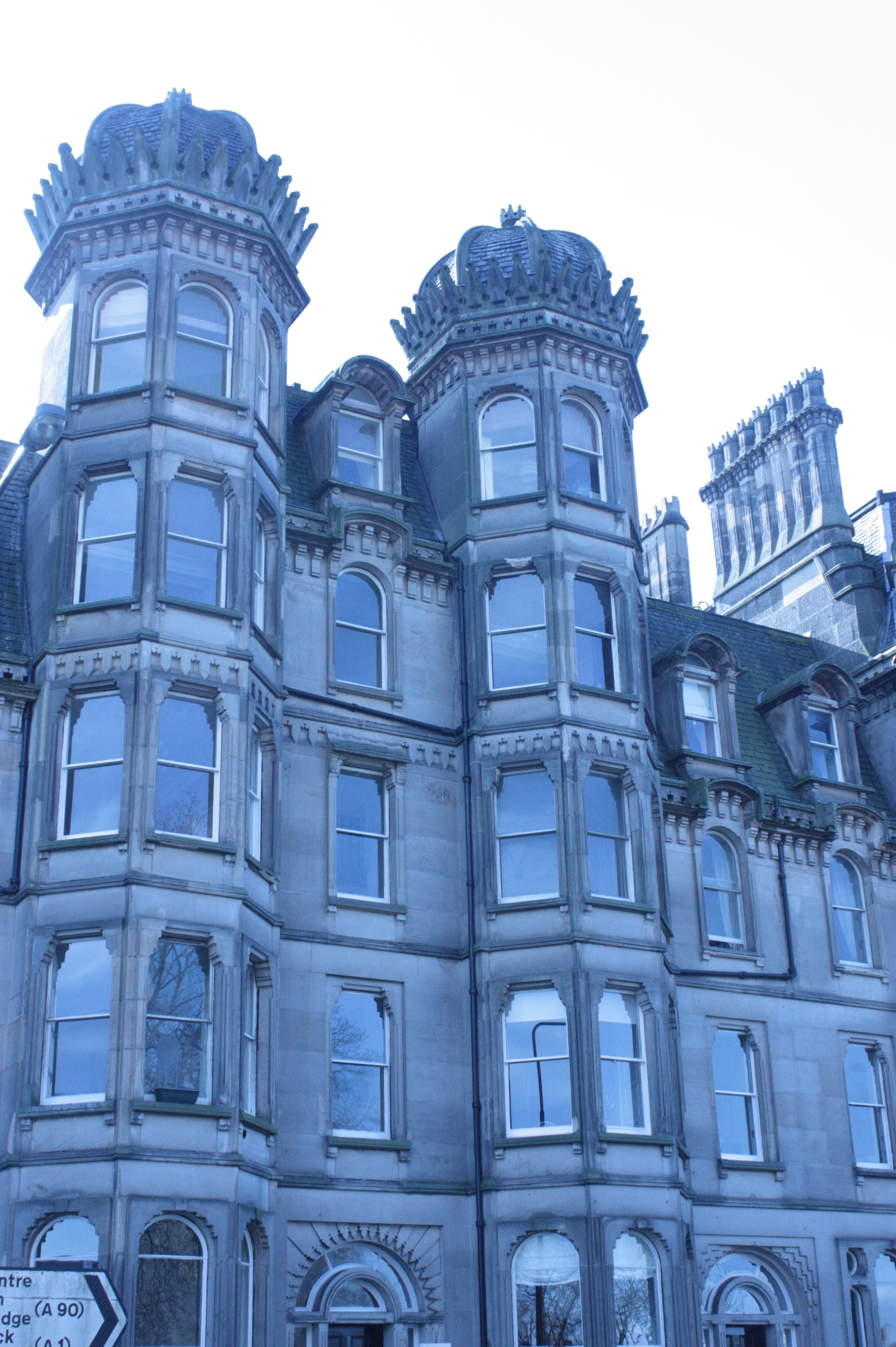 James Gowan's tenement, 26-28 Castle Terrace, Edinburgh